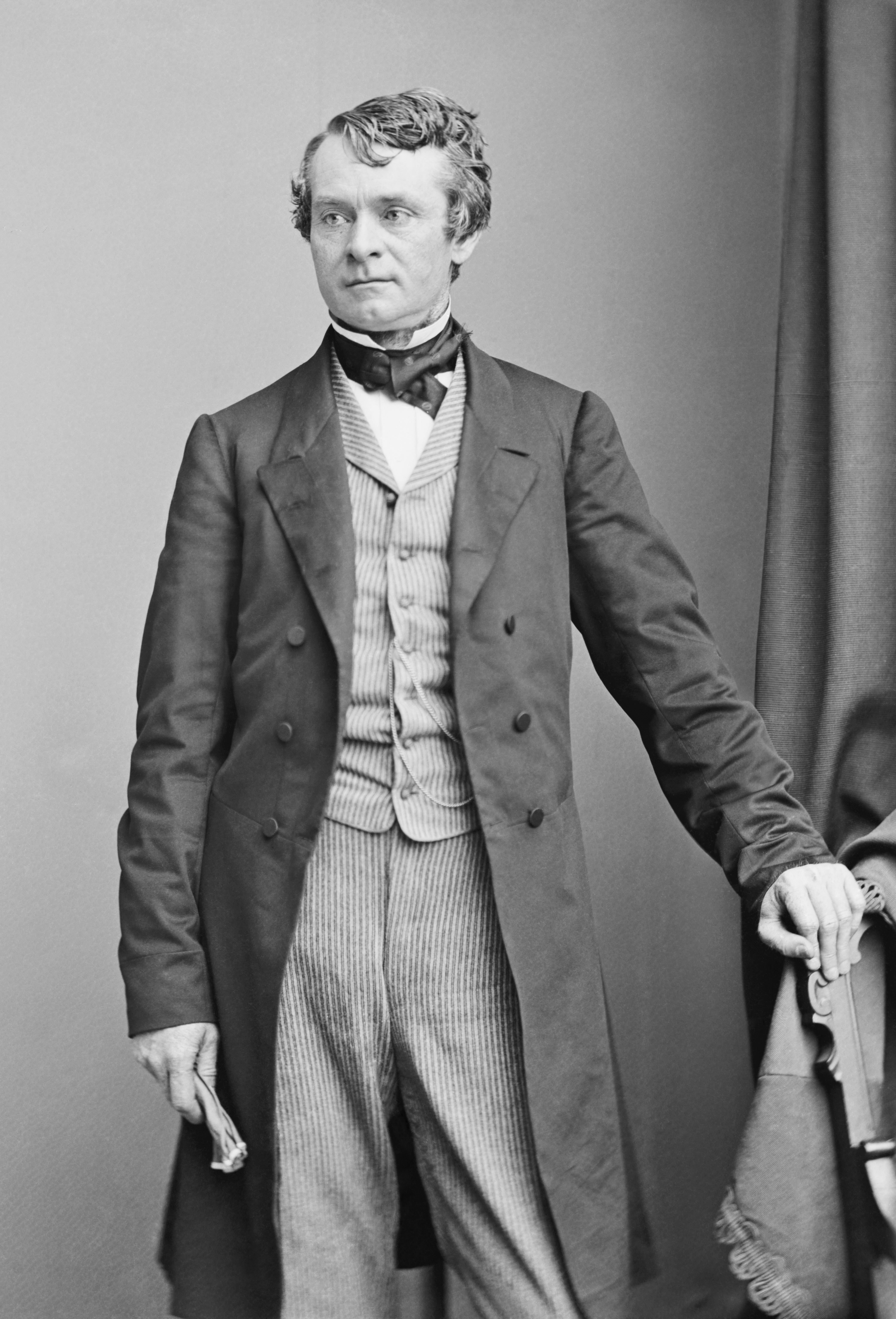 Andrew Gregg Curtin, governor of Pennsylvania. Glass negative, wet collodion.